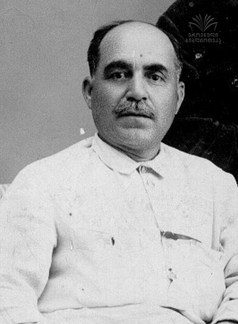 ანდრო დოლიძე